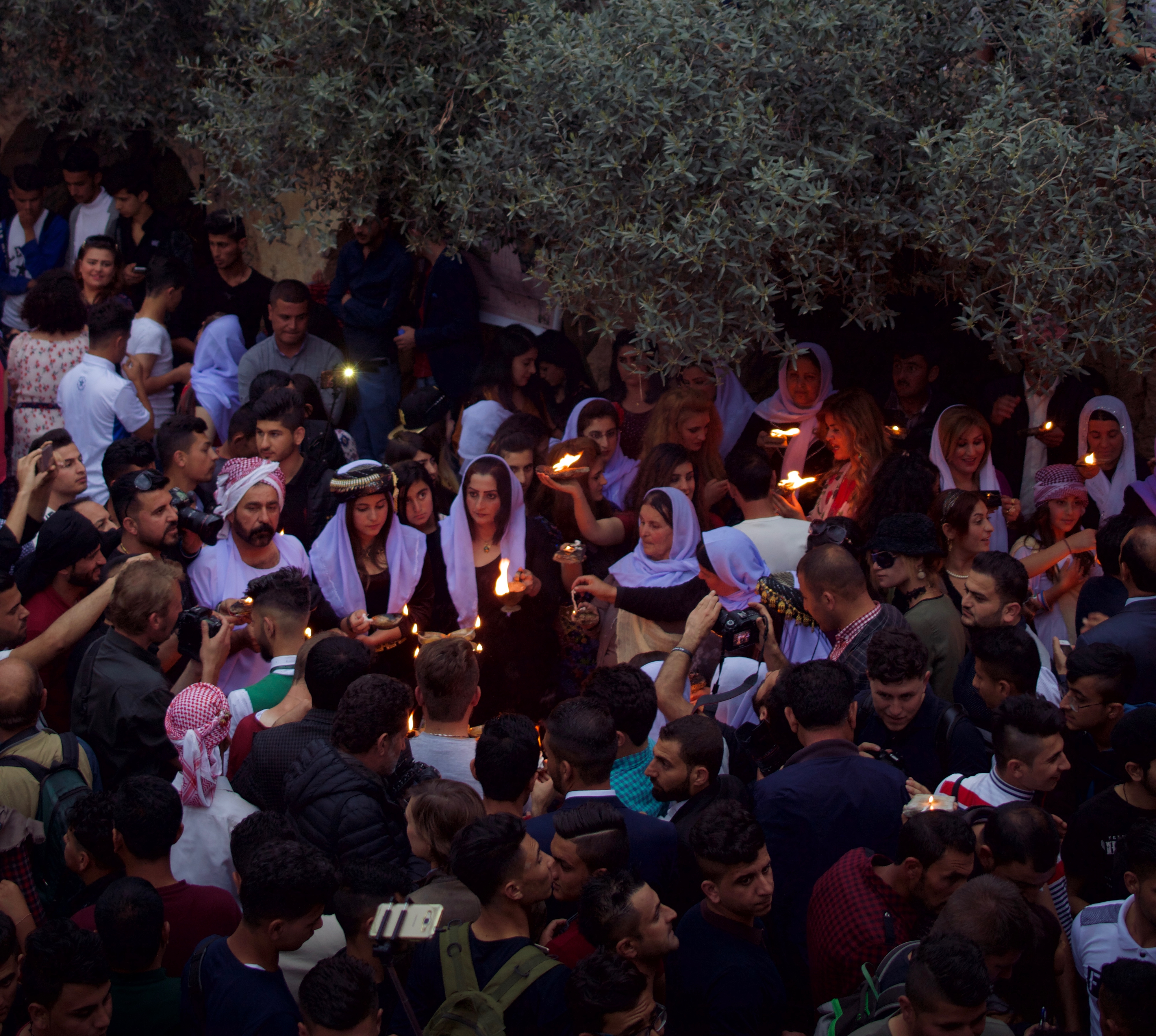 Pilgrims and festival at Lalish on the day of the Yezidi New Year in 2017, in Dohuk Governorate, Iraqi Kurdistan